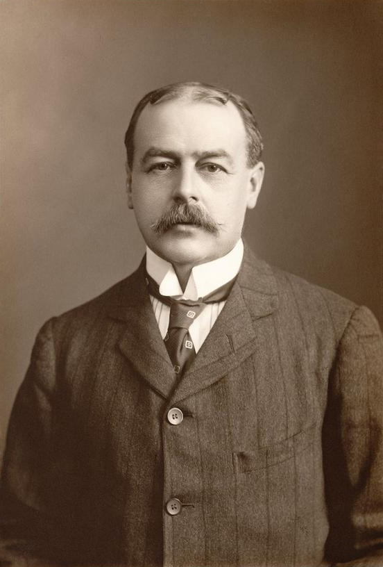 Zoologist William Blaxland Benham, portrait taken about 1907